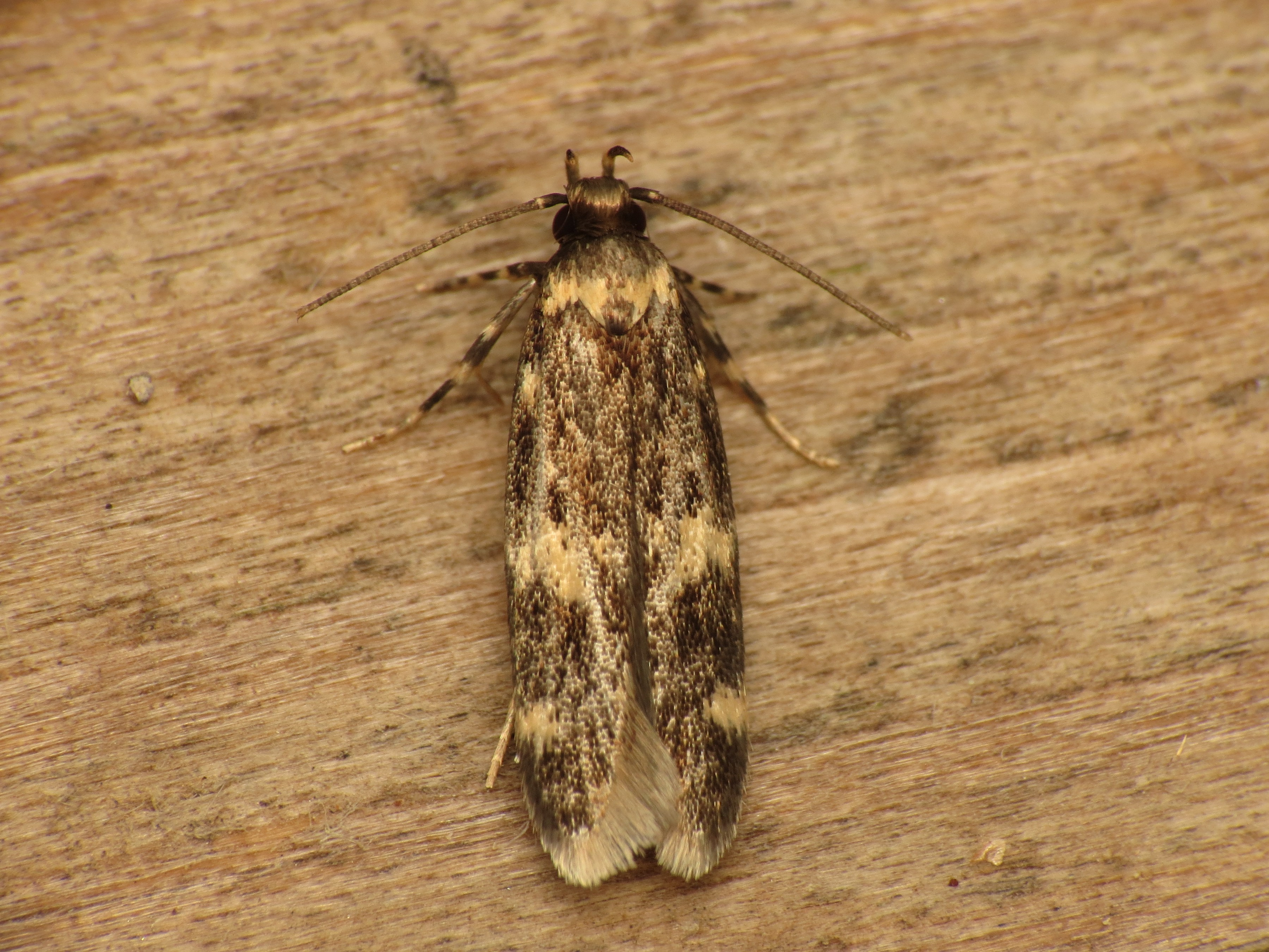 Oegoconia sp., to actinic light, Roda de Barà, Spain, 13/14 May 2013